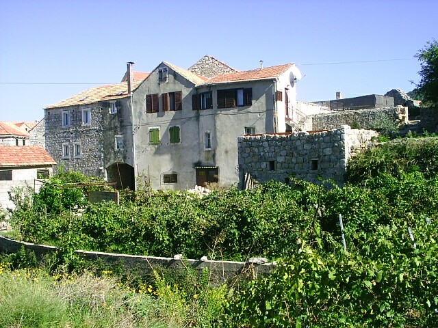 Hvar Island, Croatia